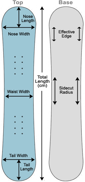 Snowboard sizing chart - snowboard length and width calculator and snowboarding guide.